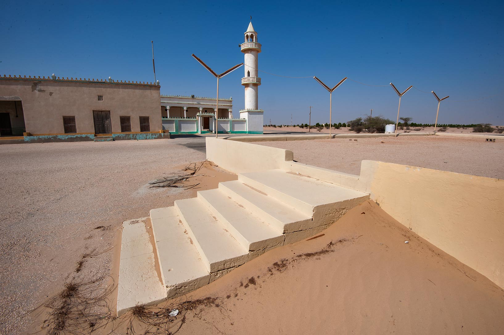 A mosque in the central square of Trainah, southern Qatar.